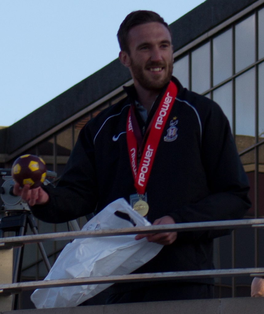 Rory McArdle. Image cropped from original at flickr.